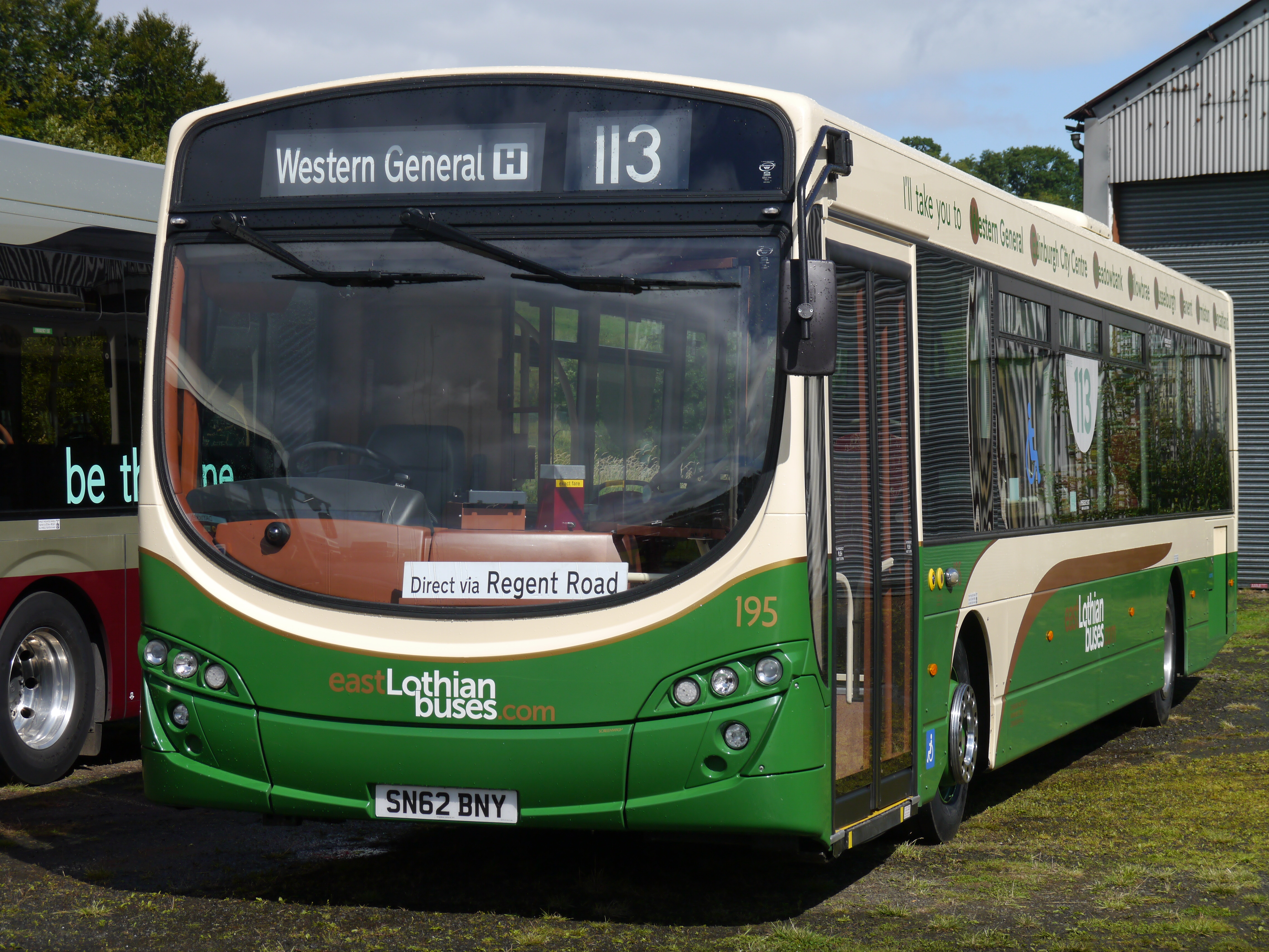 East Lothian Buses Volvo B7RLE